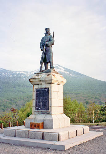 Hakkoda Mountains Aomori, Aomori Prefecture, Tohoku region, Honshu, Japan - Imperial Japanese Army - I took this photograph and contribute it to the public domain.